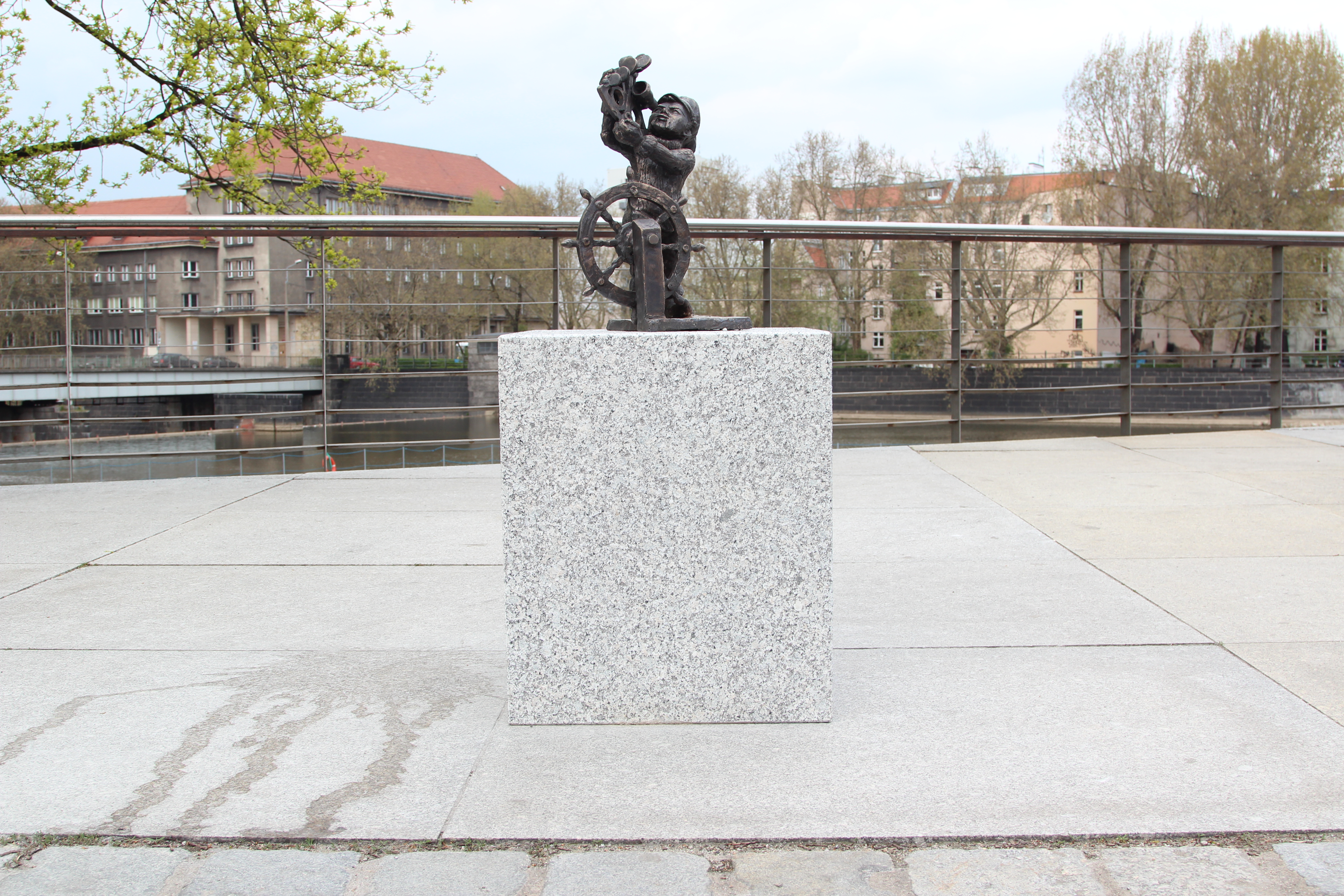 Navigator (Nawigator) dwarf from Marina Topacz on Księcia Witolda 2.